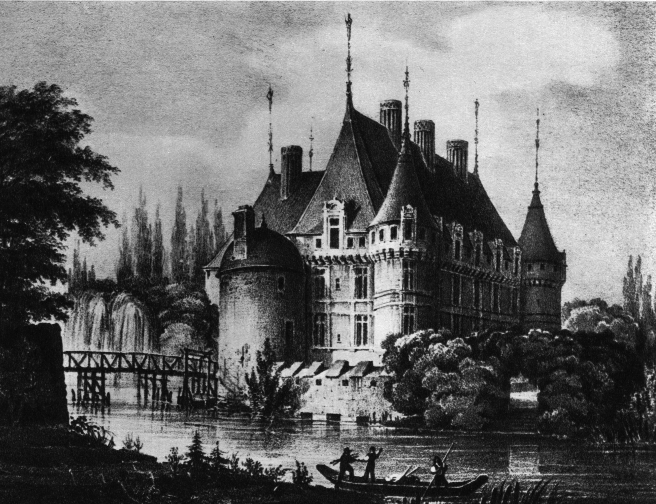 Litography of the chateau of Azay-le-Rideau by Langlumé